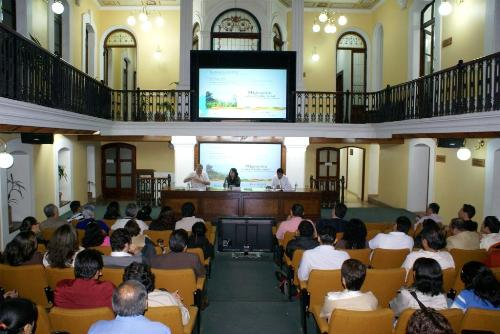 evento